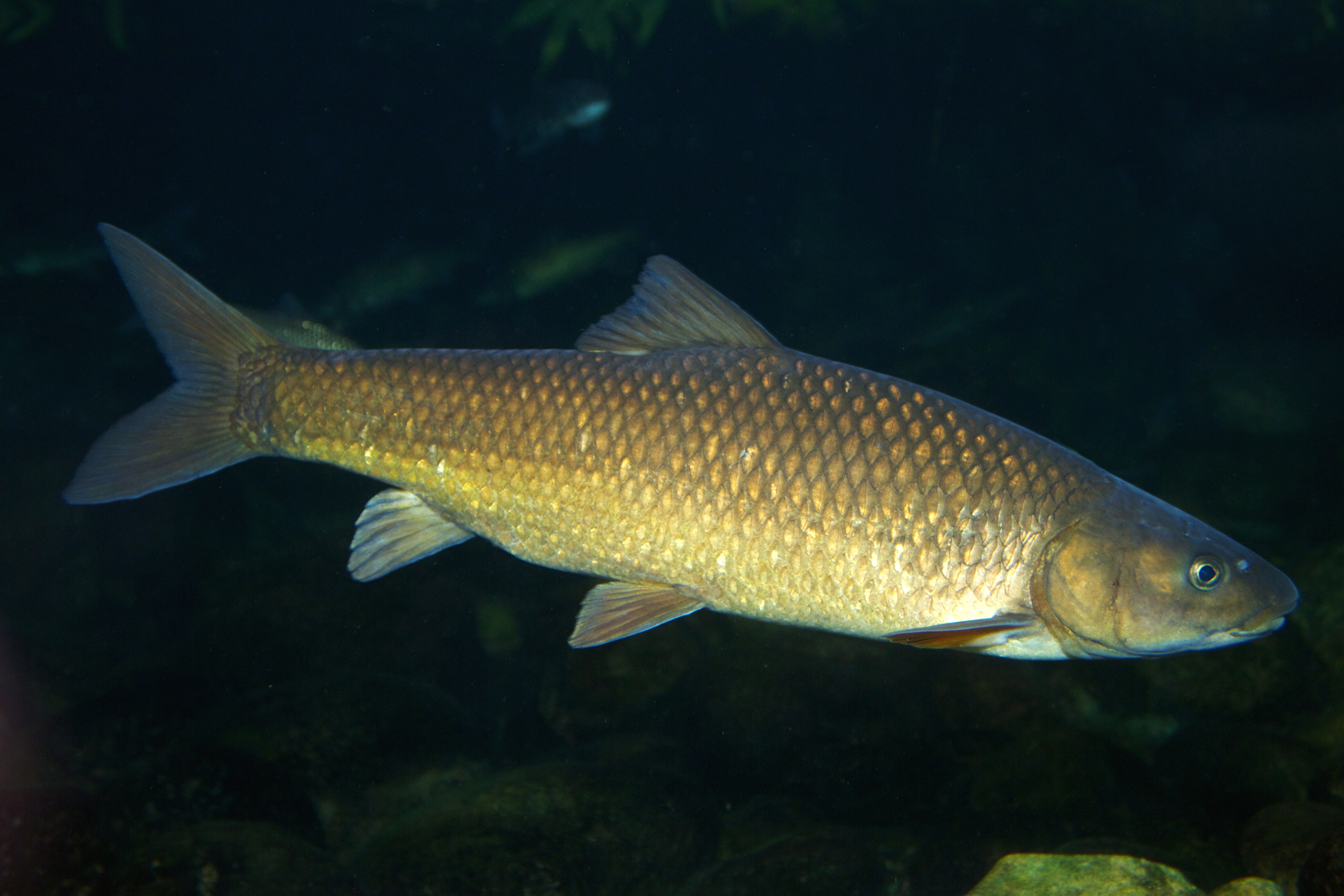 Labeobarbus capensis, cape yellowfish